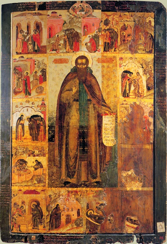 Feodosij Pecherskij (icon)